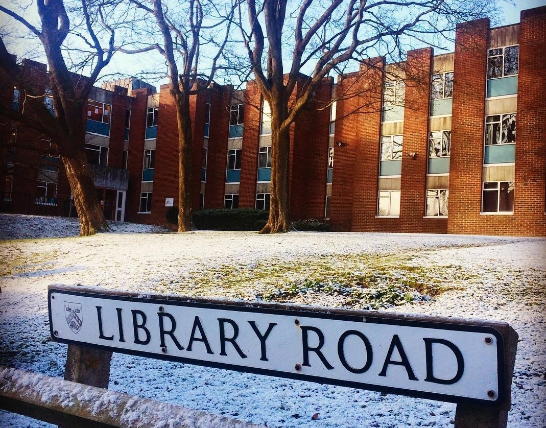 IDS building, University of Sussex 2018 Jpeg